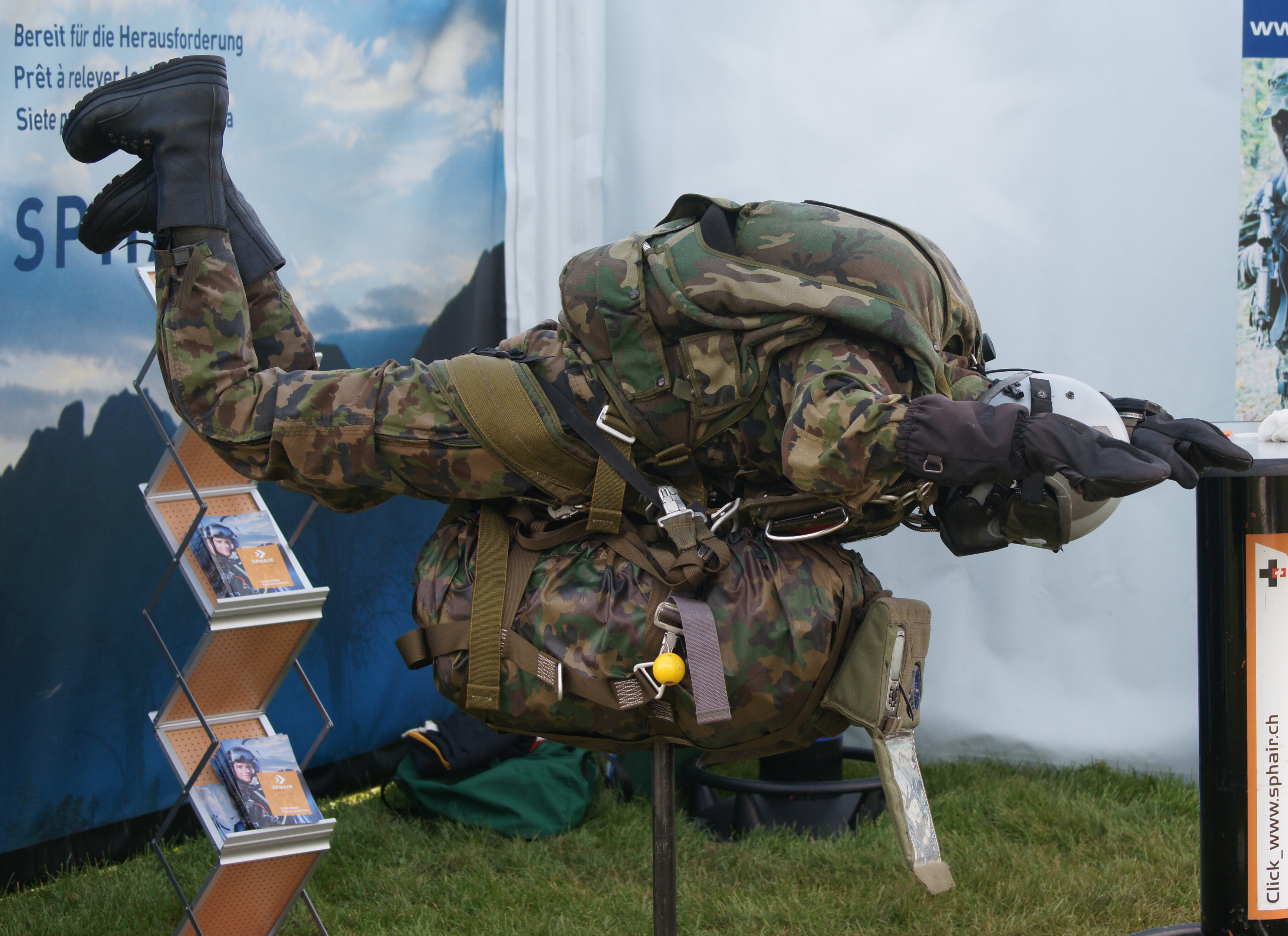 Puppet displaying the uniform and gear of the Swiss Air Force's Parachute Reconnaissance Company 17.